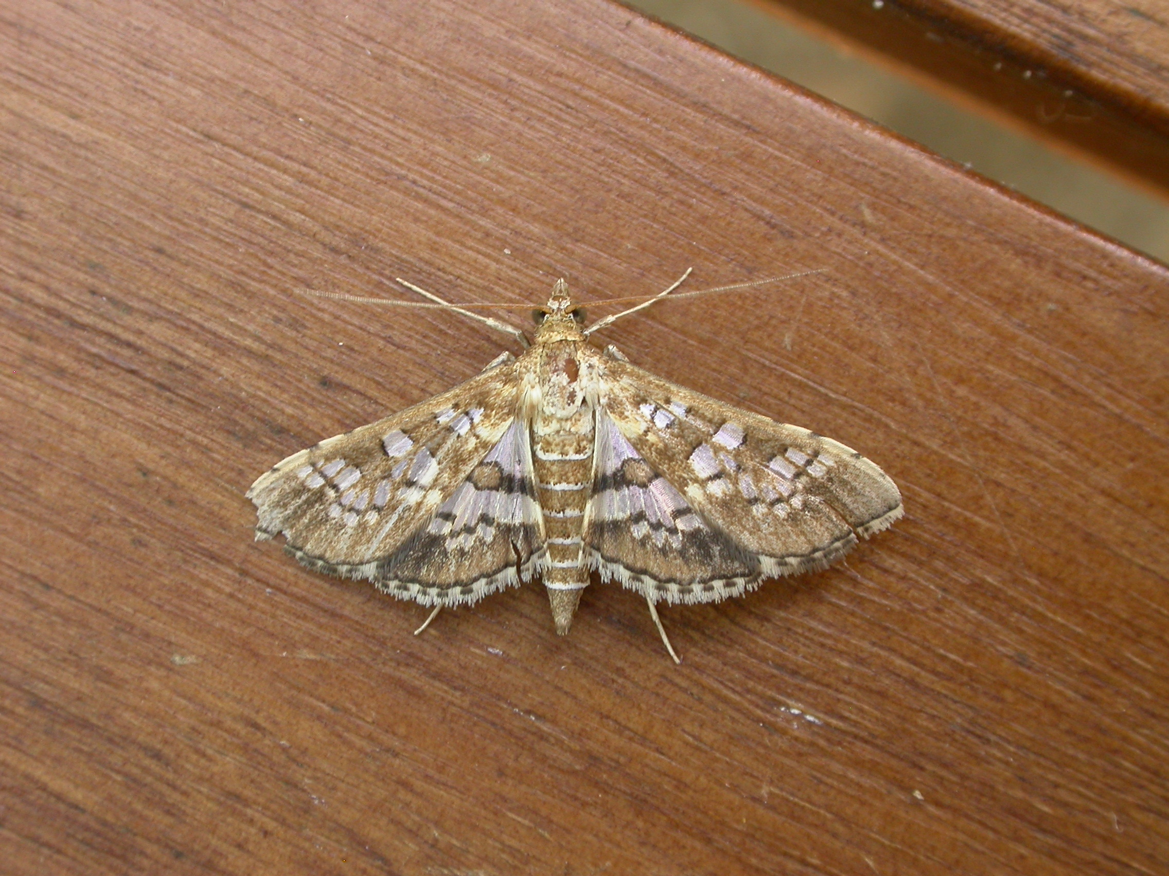 Sameodes cancellalis (Zeller, 1852), Mission Beach, QLD, 21 December 2011